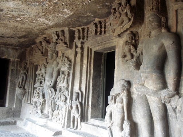 These Buddhist and Hindu caves generally gets overshadowed by their better known neighbors, i.e. Ajanta and Ellora. But these are beautiful and historic in their own right.